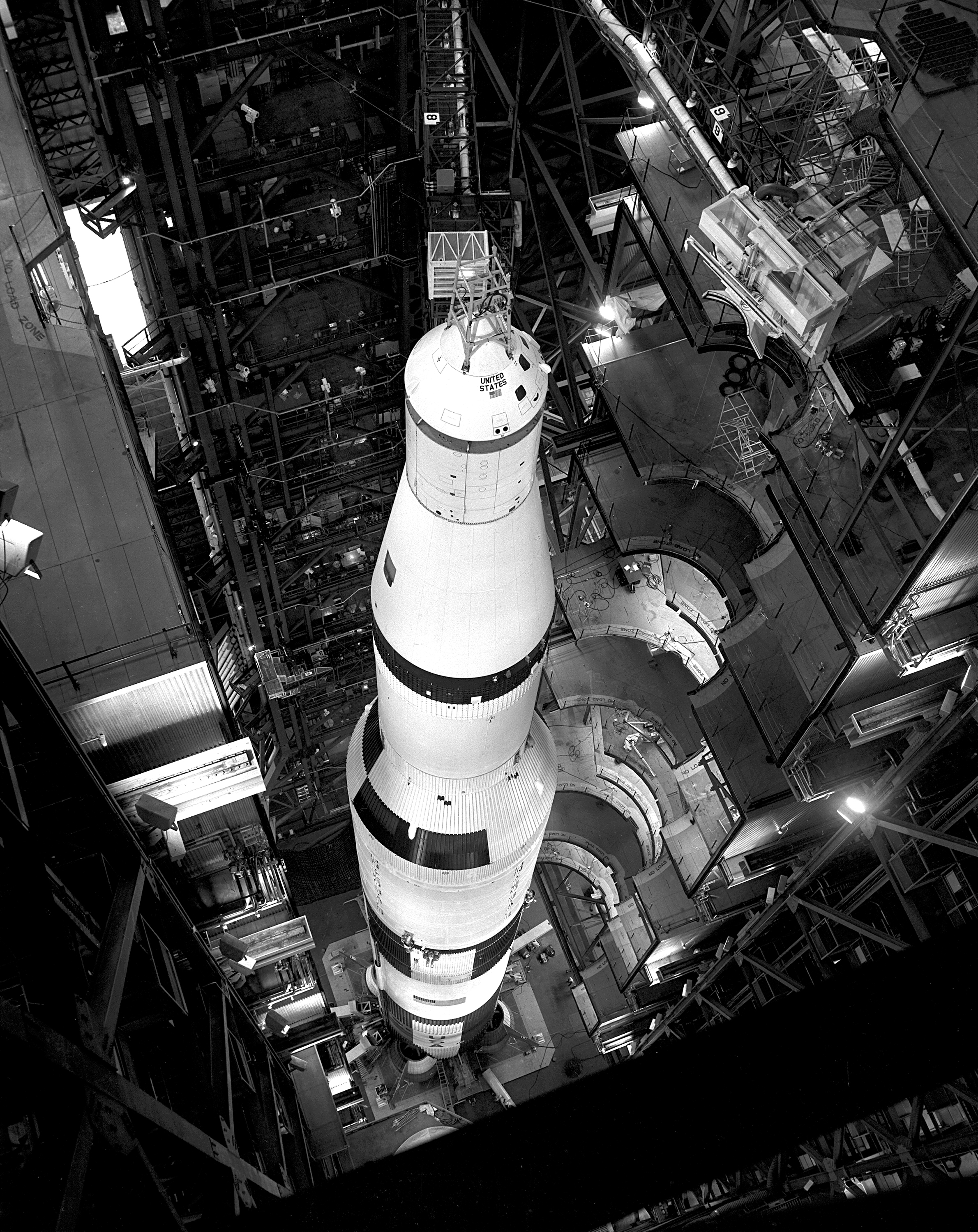 A top-to-bottom view of the 36-story-tall Apollo/Saturn 501 space vehicle in High Bay No. 1 of the Vehicle Assembly Building.